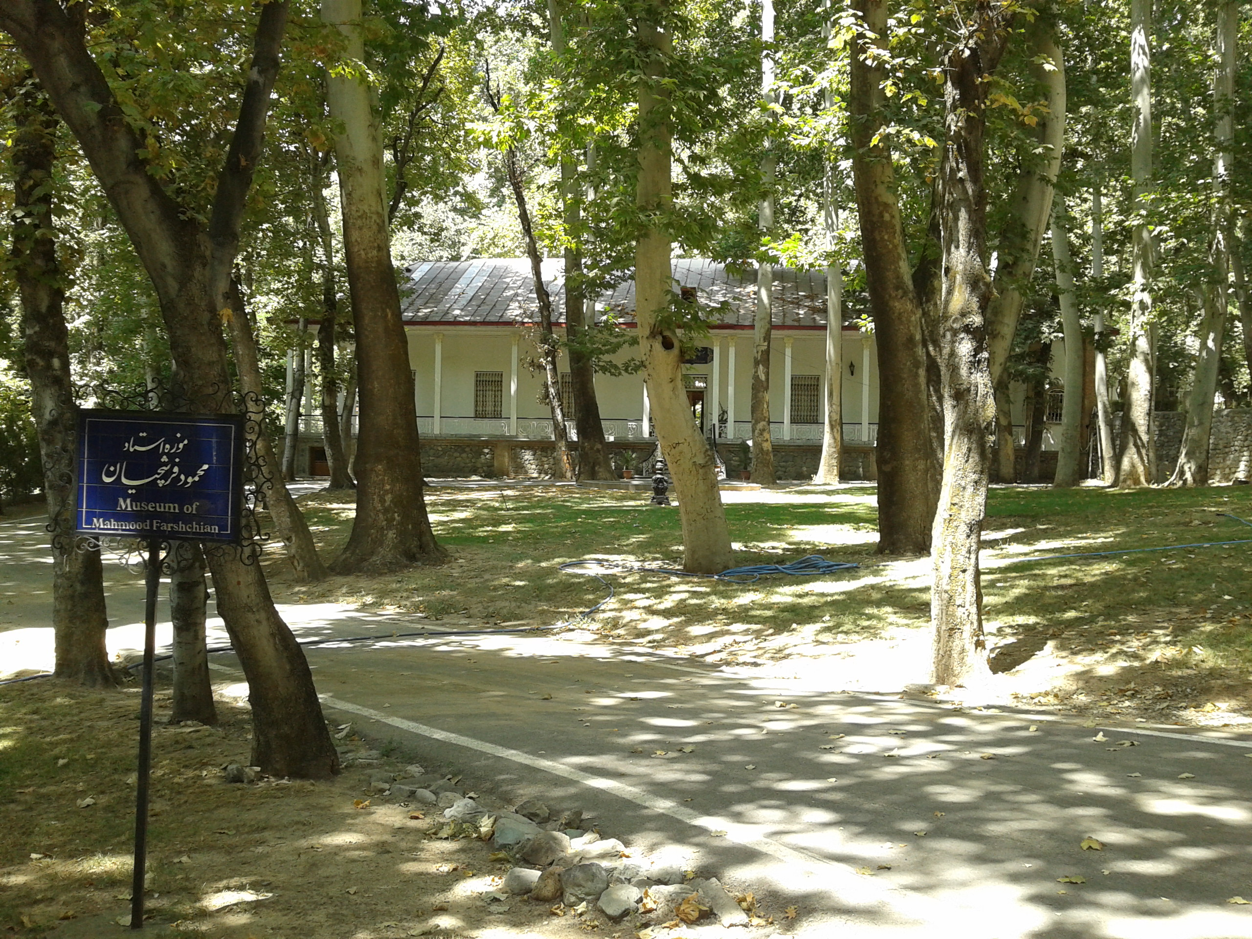 Esmat Dowlatshahi Palace (Mahmoud Farshchian Museum), Sa'dabad Palace